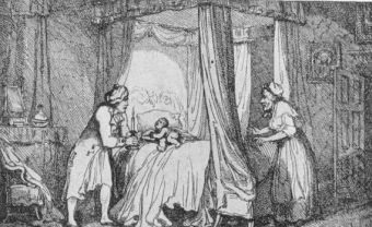 Rowland's original illustration for Henry Fielding's 1749 satire Tom Jones: the Squire finds Tom, an illegitimate baby, in his bed, and announces the foundling is to be raised as if he were his own son, in his manor house.